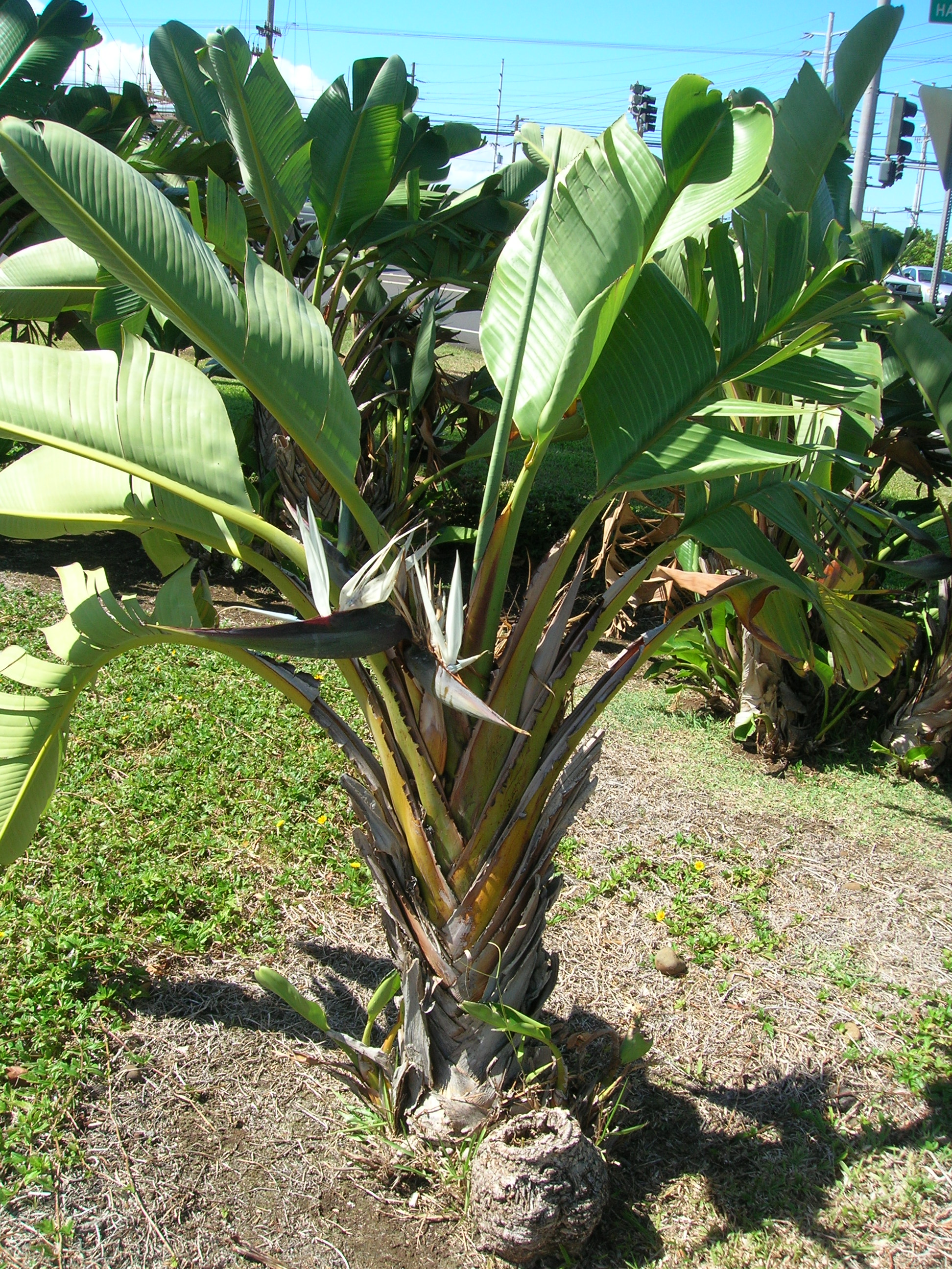 Strelitzia nicolai (habit). Location: Maui, KMart Kahului